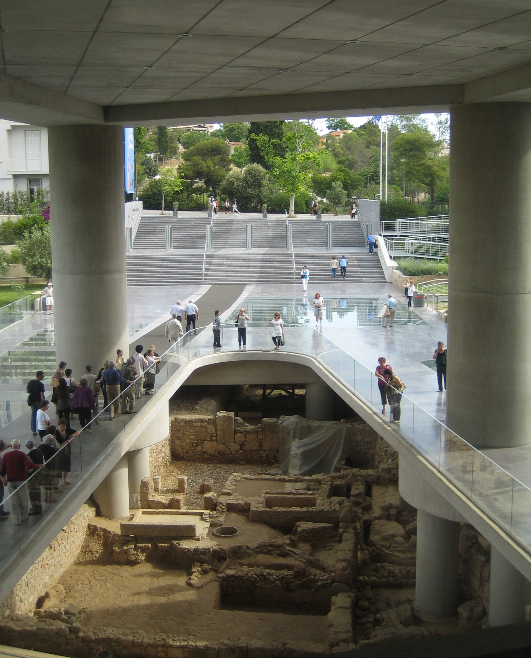 New Acropolis Museum, Athens. Ruins in the entrance.